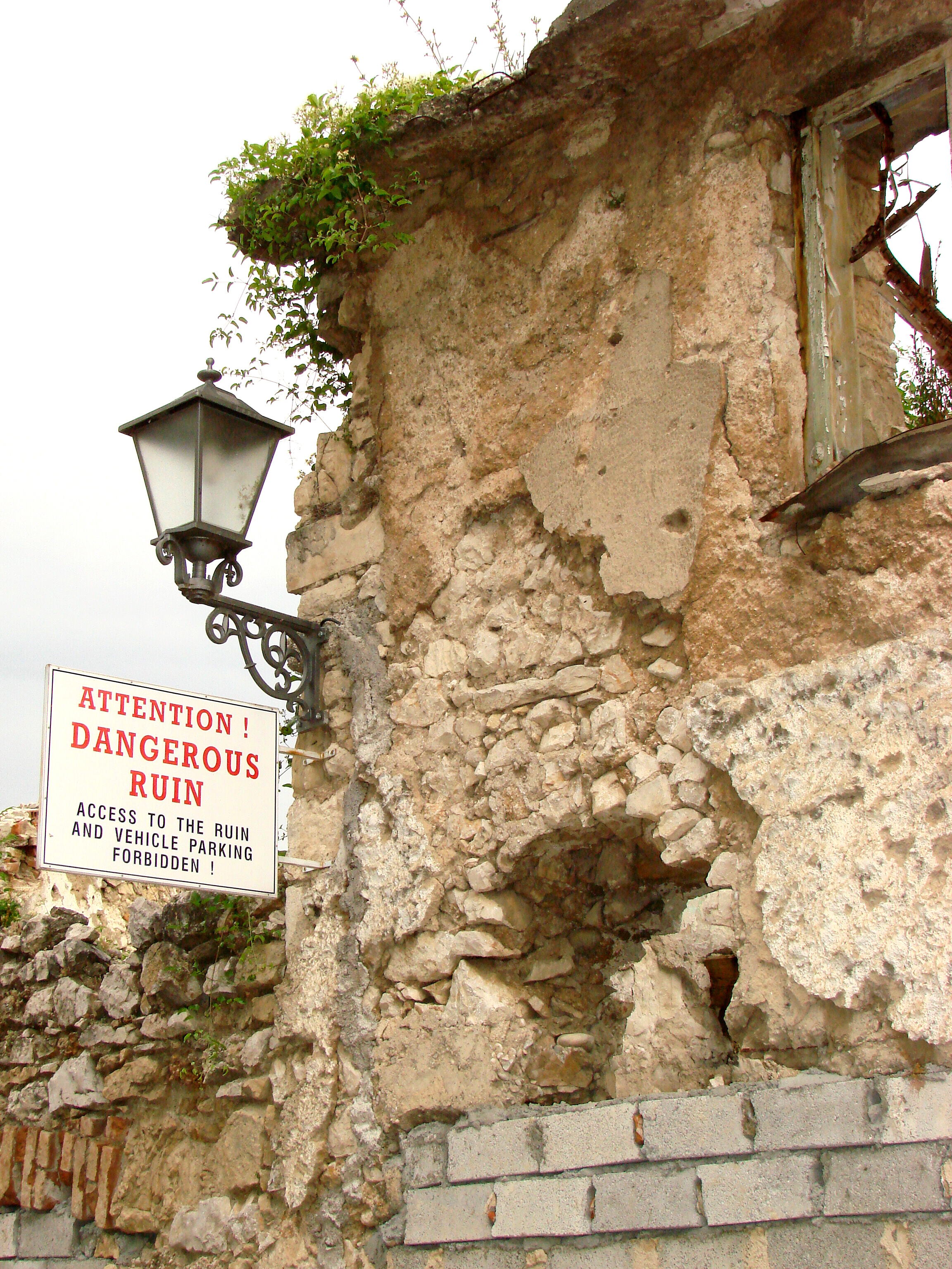 War-ruined building in Mostar, Bosnia and Herzegovina. July 2007.